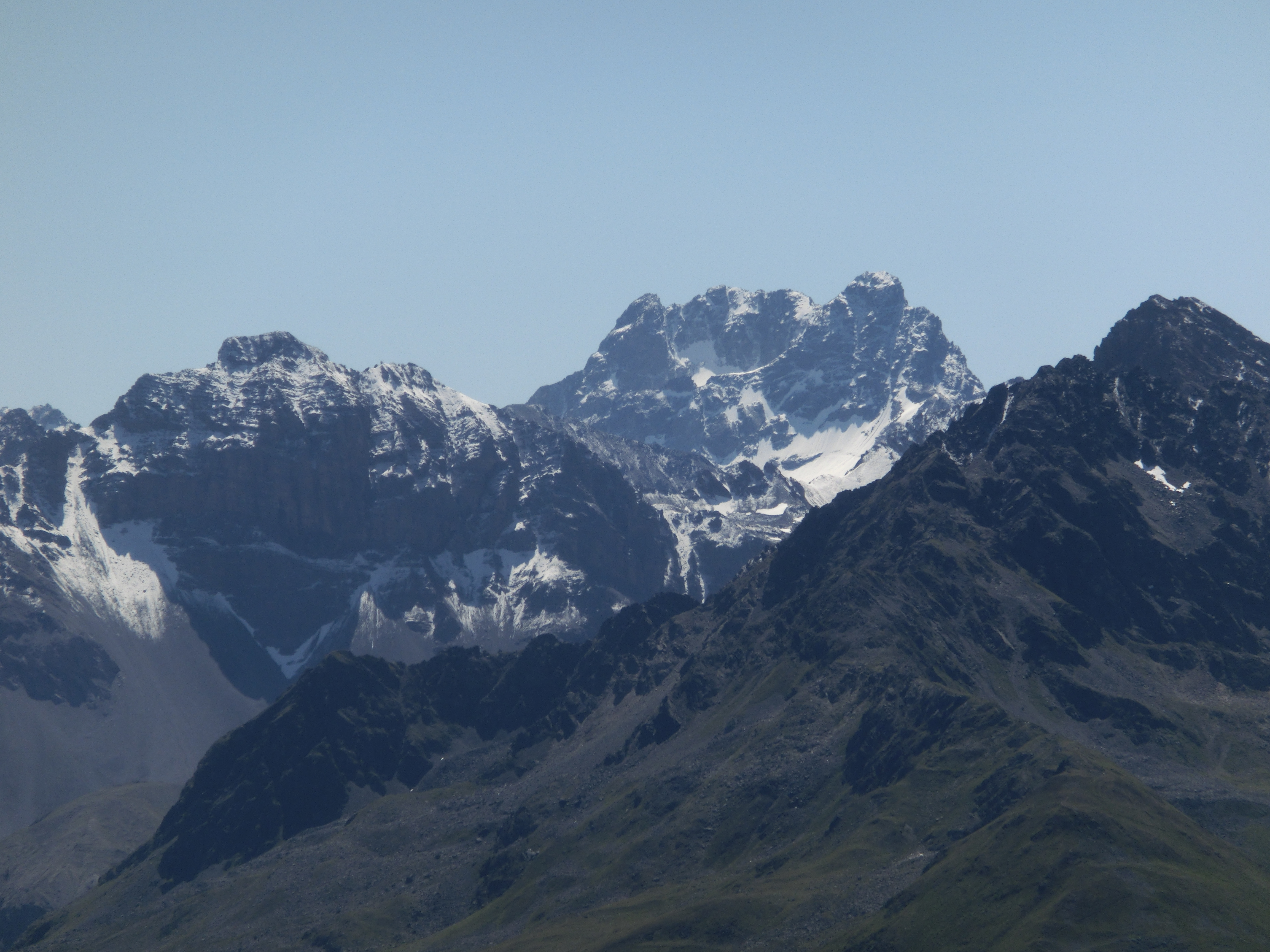 Piz Kesch, picture taken from Strela, Arosa, Davos, Grison, Switzerland